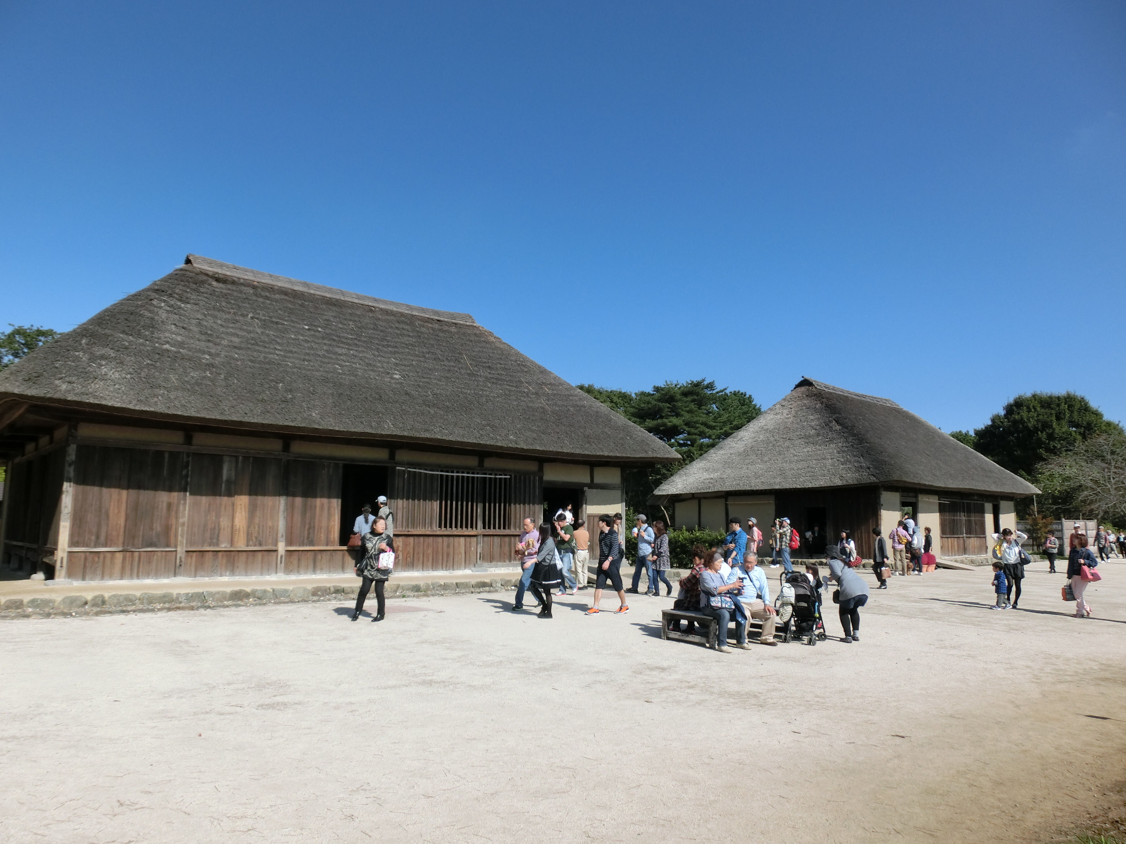 Old Doi-ke House (Hitachi Seaside Park)